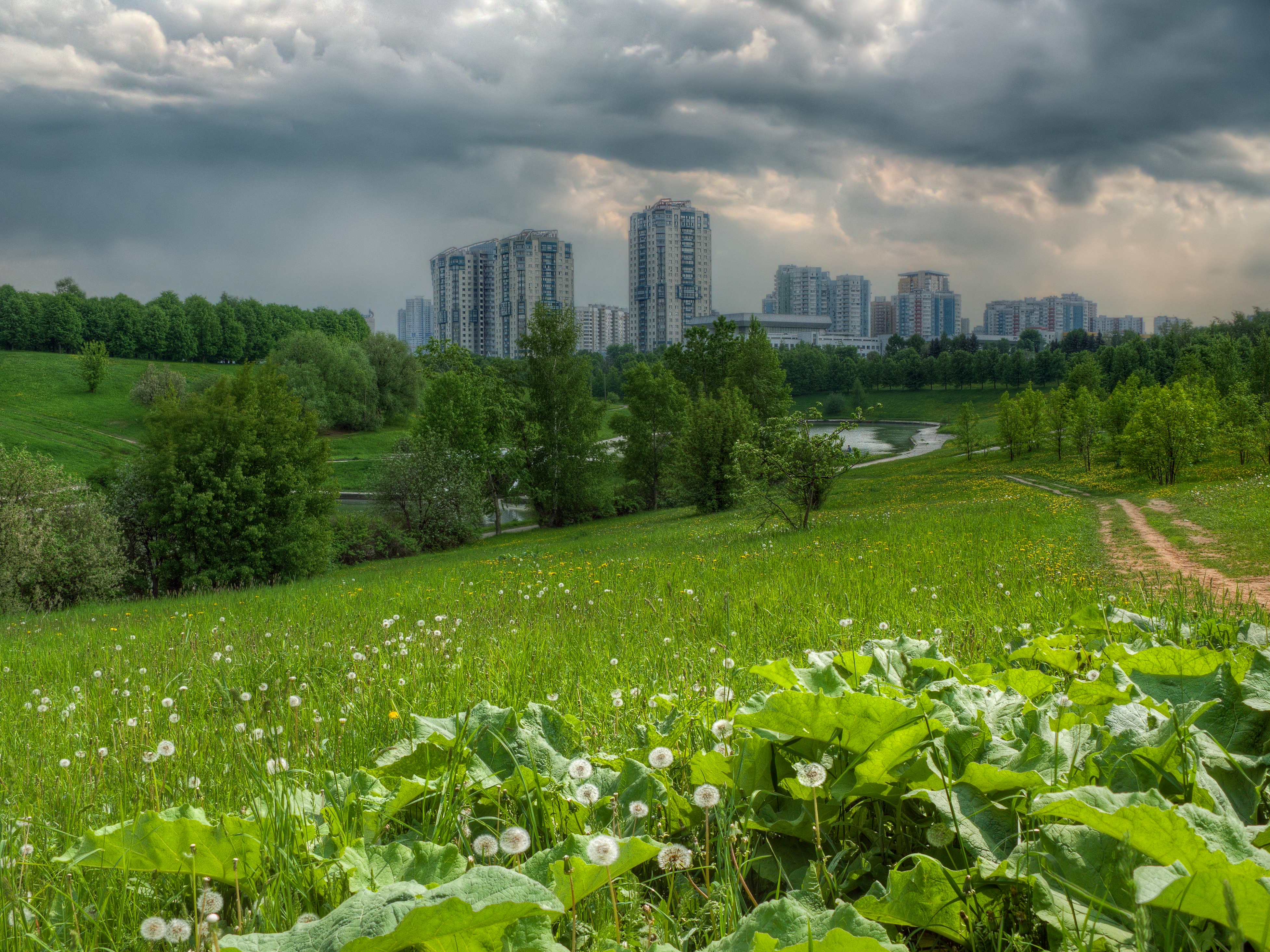 Moscow, may 2011. 3 exposures (+2, 0, -2). Original resolution: 3908 x 2931 pixels. Prints | Blog | Facebook | Google+ | DeviantArt | 500px | Tumblr